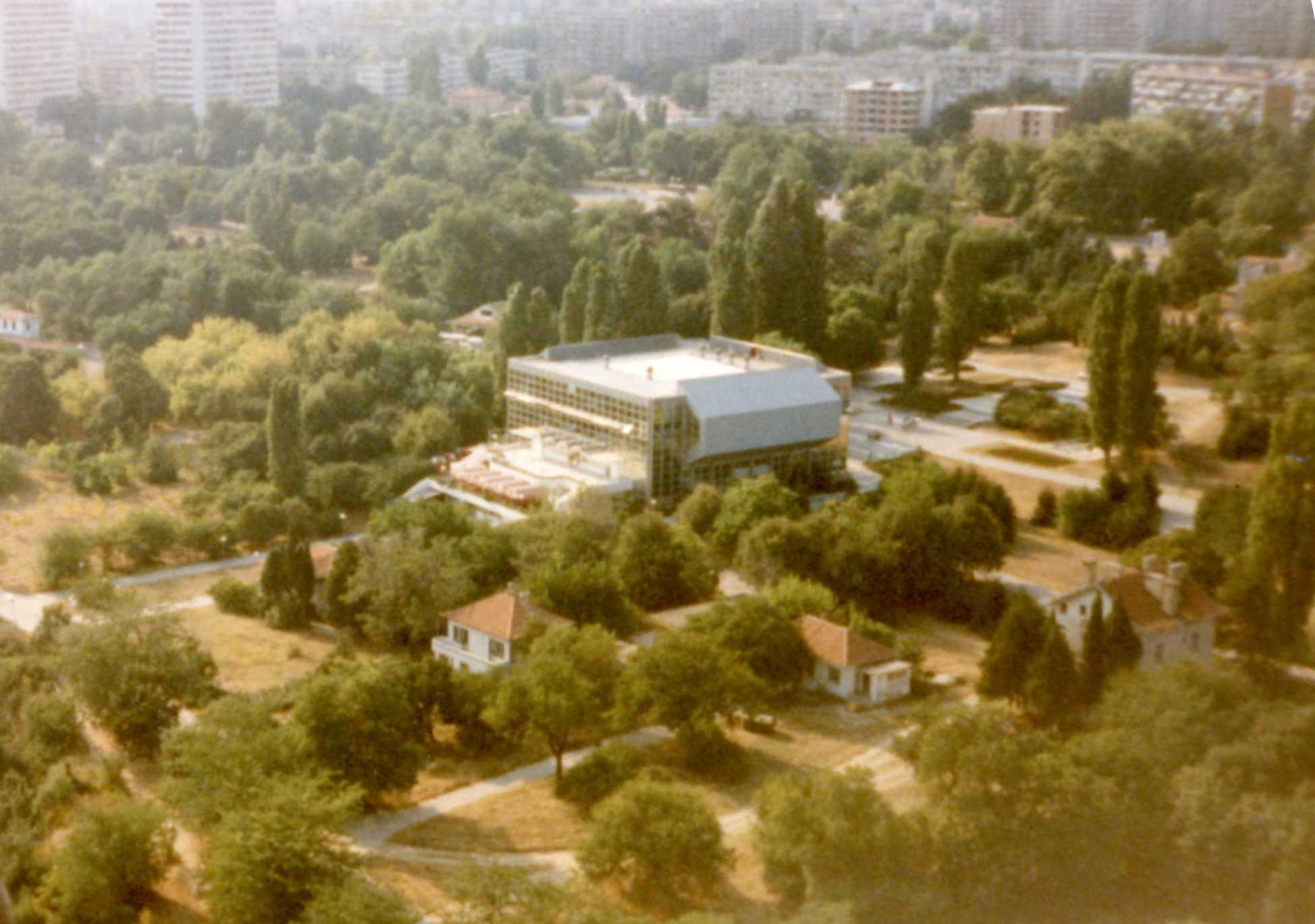 Varna, Dolphinarium